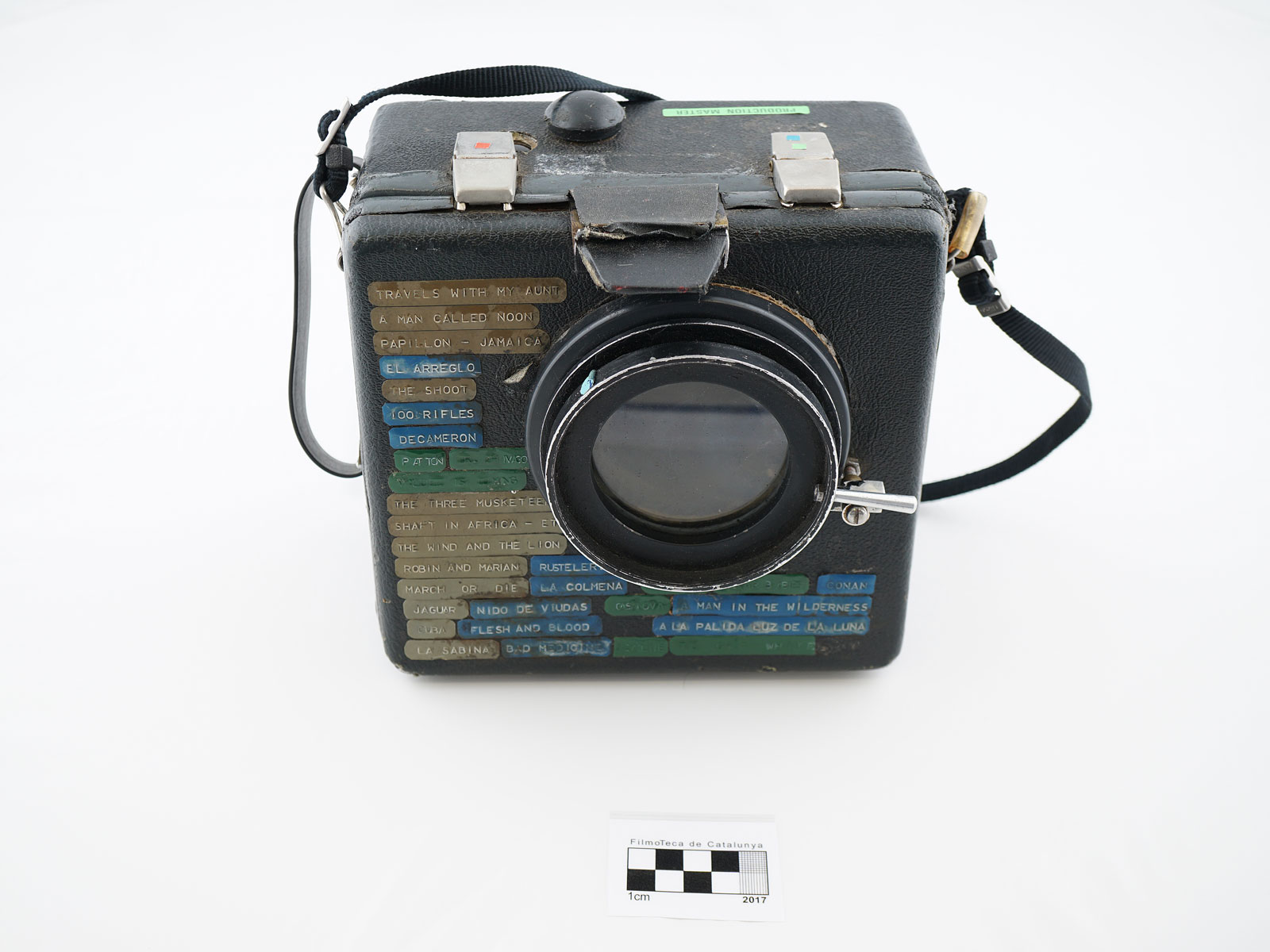 Blimp used by Frederic Gómez Grau. It was made by him by hand and used in films where he participated as a still photographer, the titles of which are attached to the device with labels.